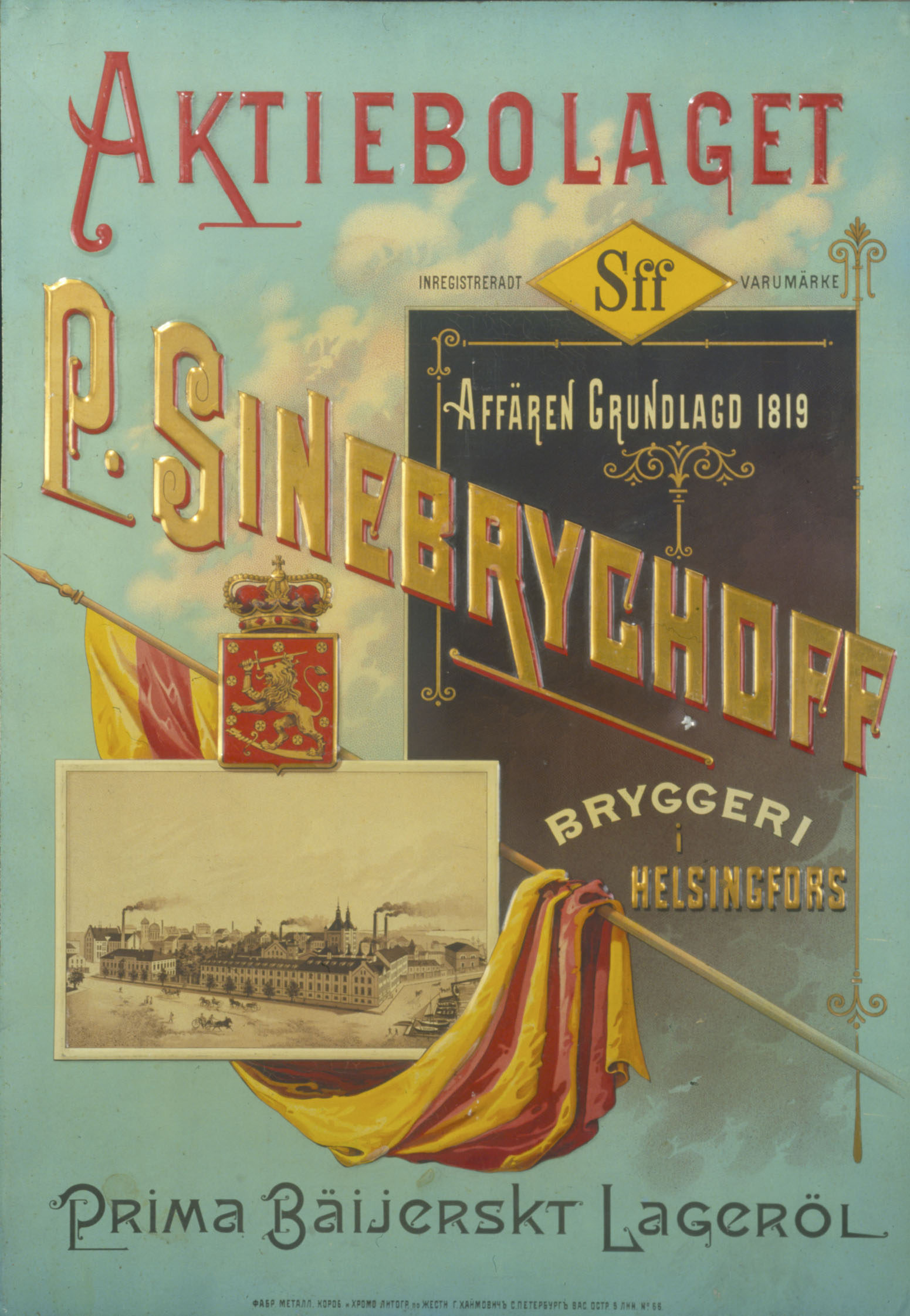 A poster of Sinebrychoff brewery.